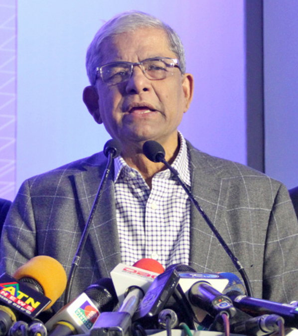 Mirza Fakhrul Islam Alamgir